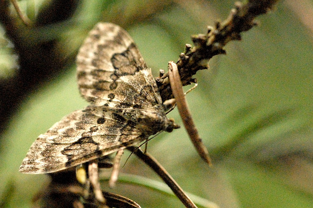 Picture taken in Commanster, Belgian High Ardennes . Species: Thera variata